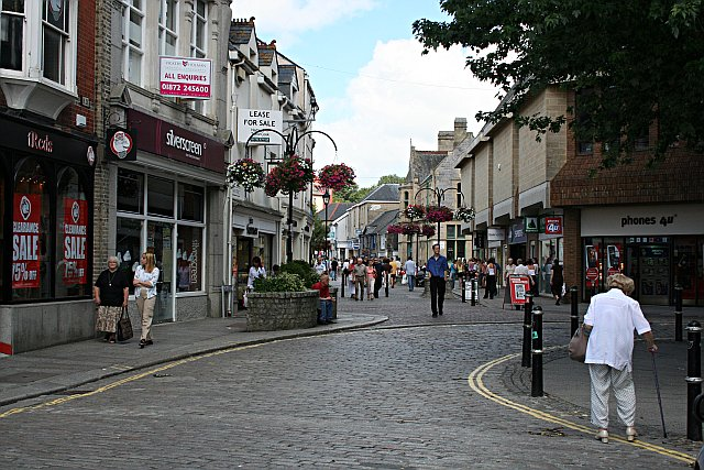 Truro Town Centre, Sunday Morning It does not seem like many years ago that this street would have been deserted on a Sunday morning. Sunday shopping has now become part of our way of life.